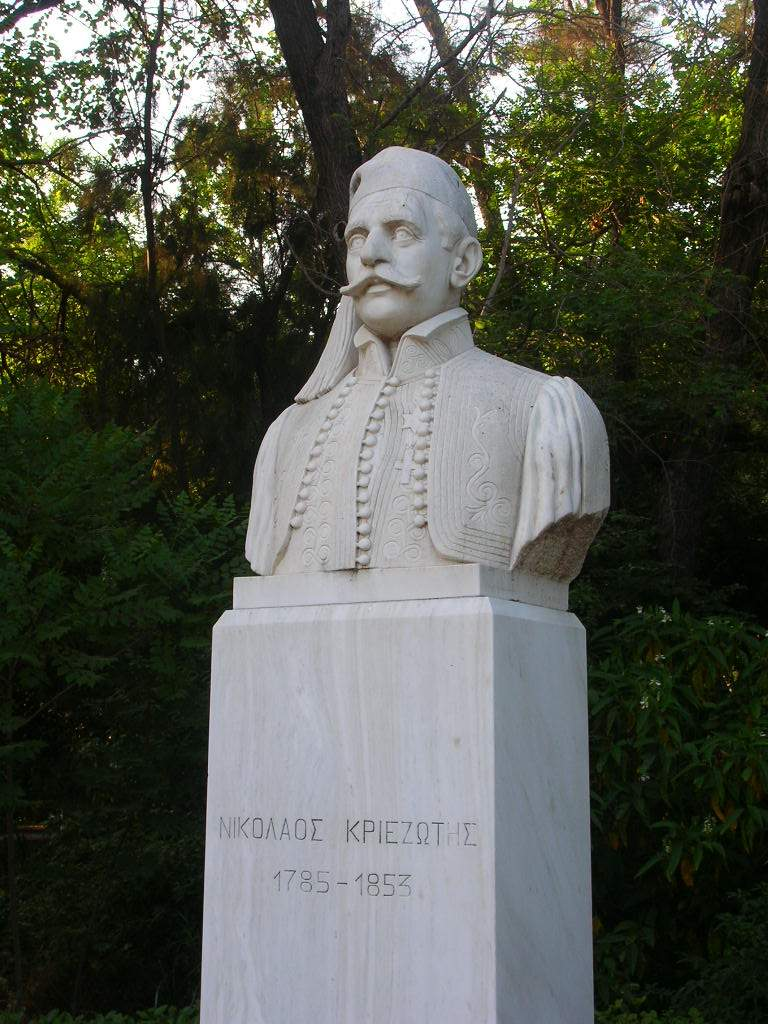 monument of Krieziotis in Athens, own photo, Gepsimos 15:50, 14 May 2006 (UTC)